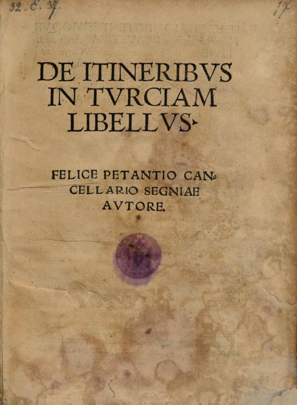 De itineribus in Turciam libellus Cover